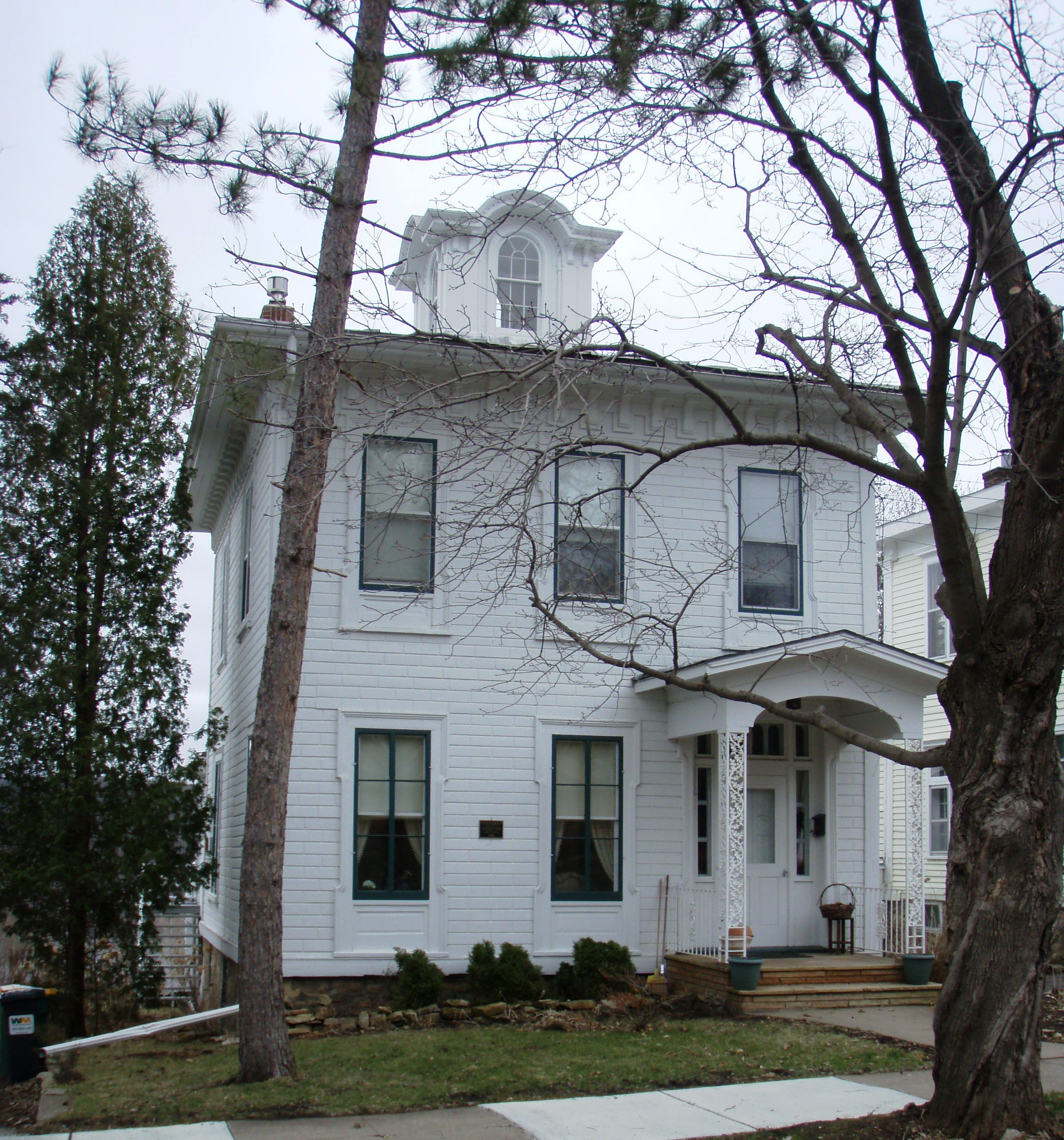 Mortimer Webster House in Stillwater, Minnesota, listed on the National Register of Historic Places.